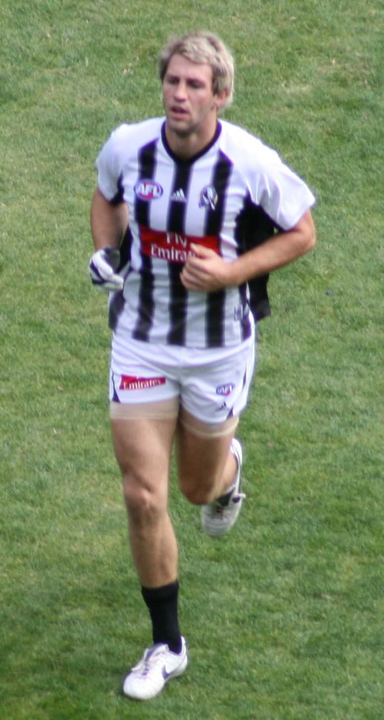 Travis Cloke in Round 4 2008